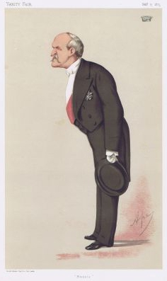 Caricature of Count Schouvaloff. Caption read "Russia".